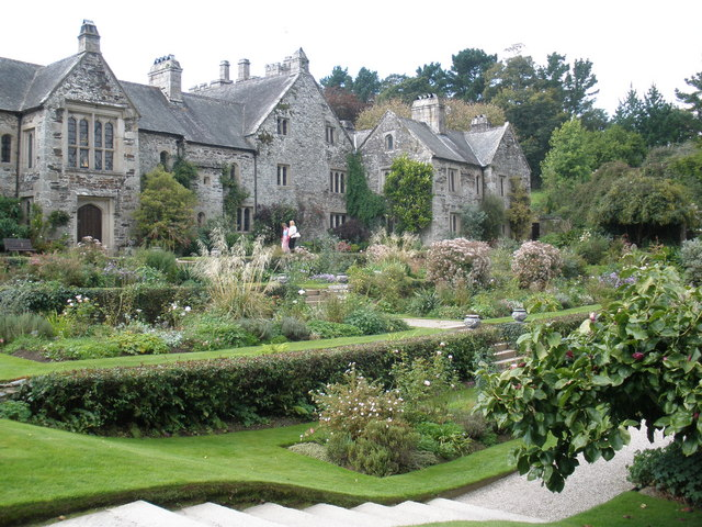 Lower gardens, Cotehele